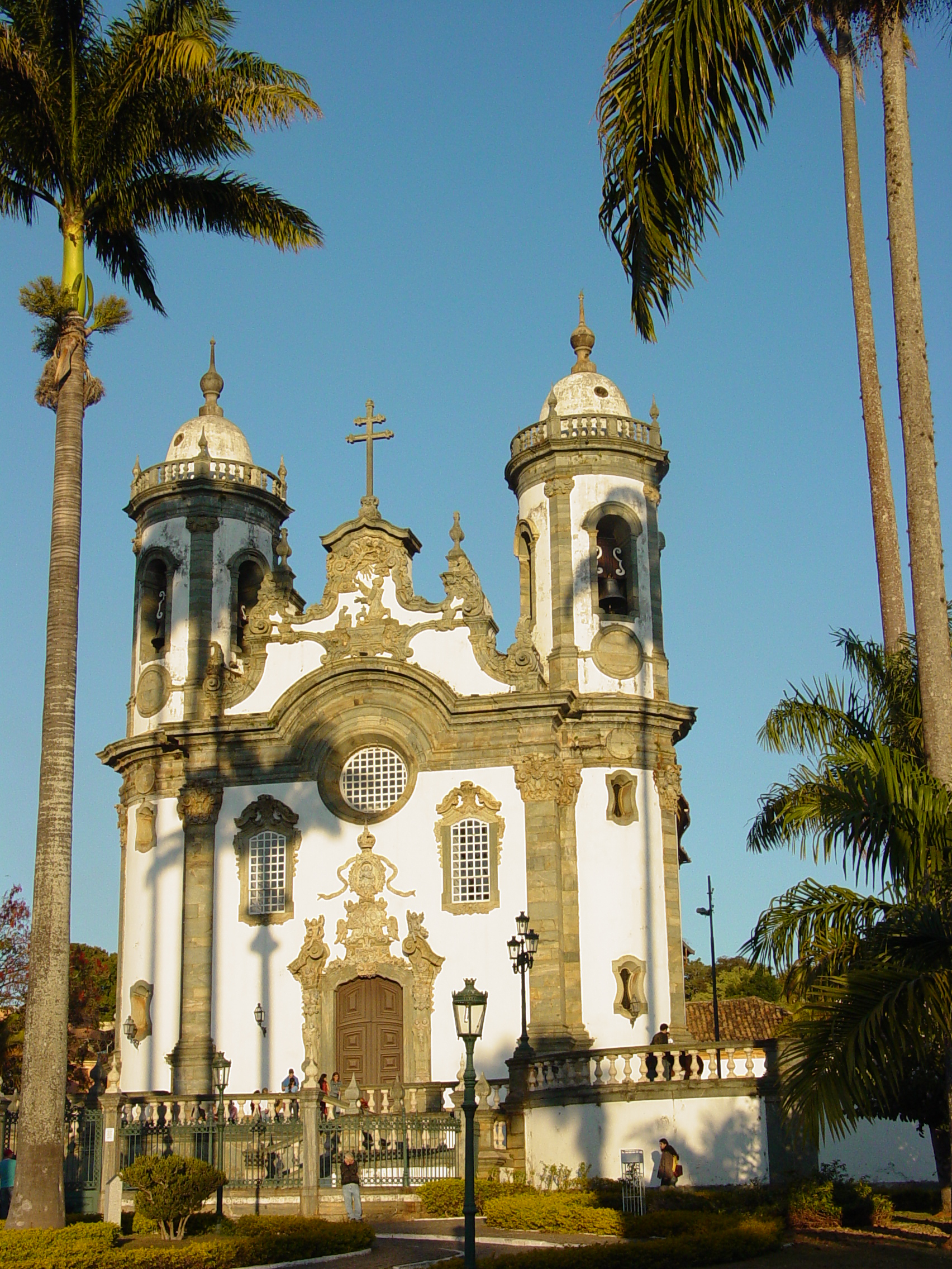 Igreja Sao Francisco de Assis, Sao Joao del Rei, Brazil. July 2006. The church was built between 1749 and 1774, and is "the tallest baroque church in Brazil and possibly in all the Americas" (Moon Publications: Brazil), with a gallery of immense palm trees donated by the Emperor Dom Pedro II in 1838.